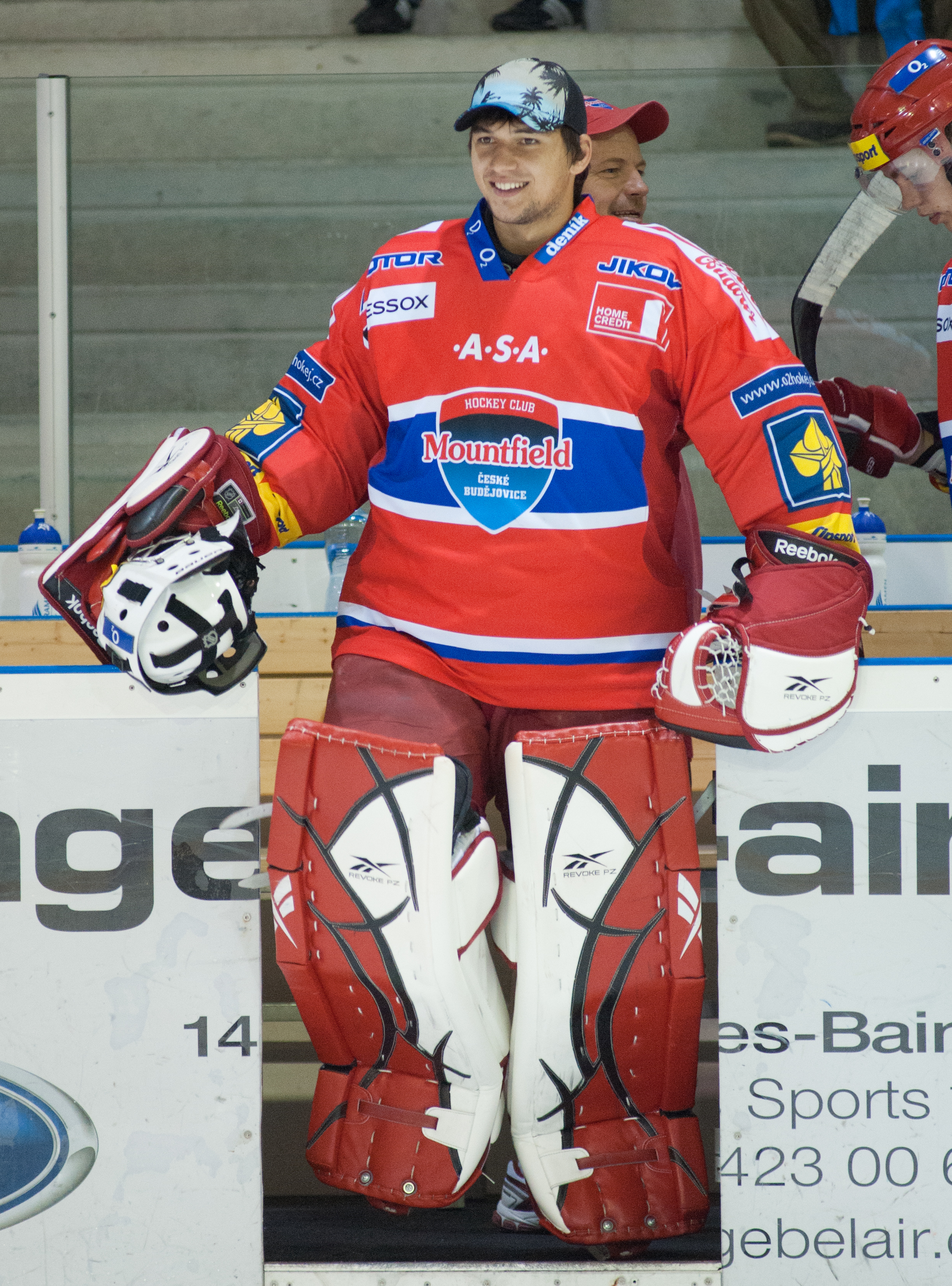 Festyvhockey 2010, Yverdon-les-Bains. The making of this document was supported by Wikimedia CH. (Submit your project!) For all the files concerned, please see the category Supported by Wikimedia CH.